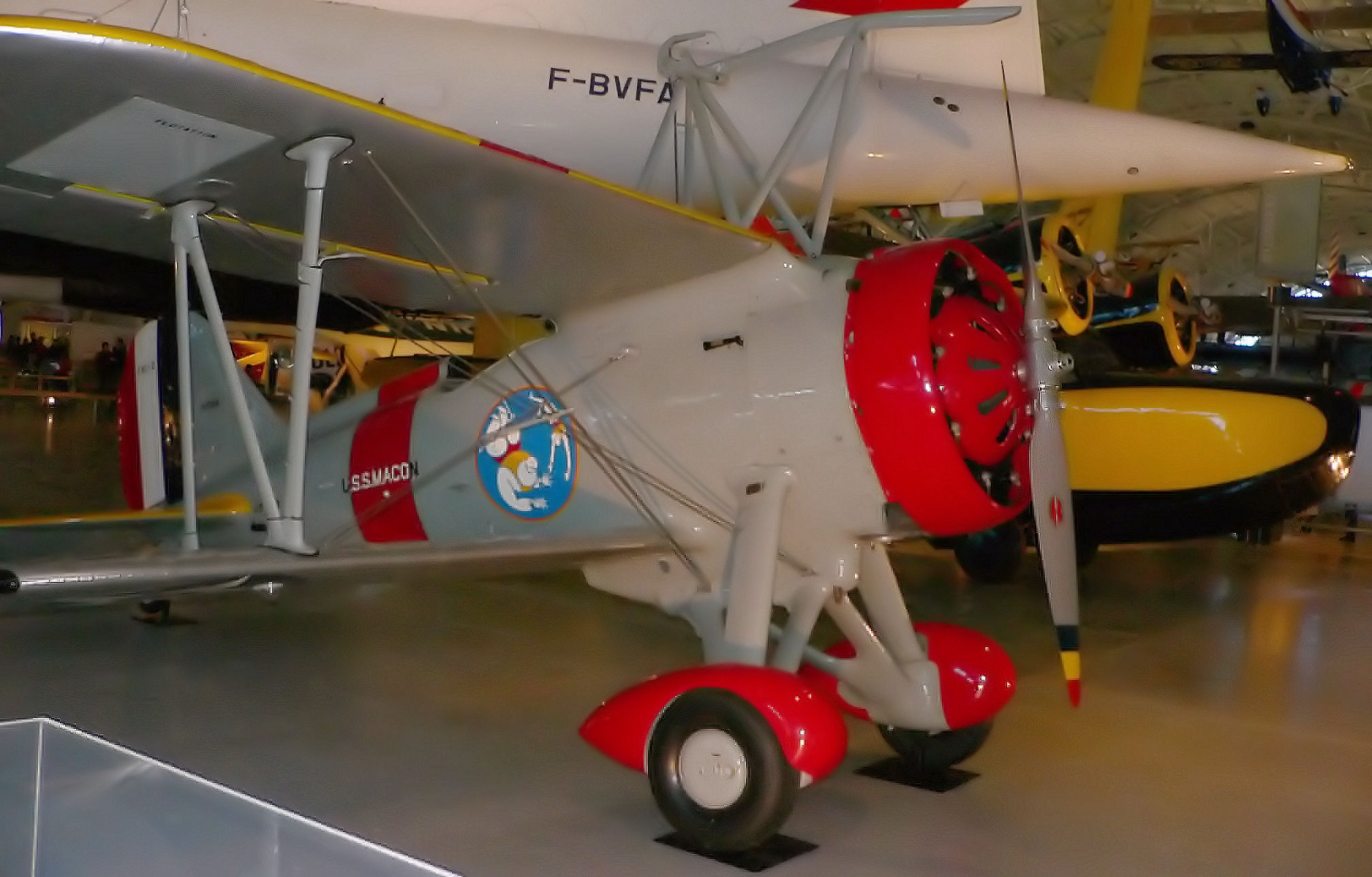 A plane carried by the USS Macon blimp. Picture taken by Mark Pellegrini in the Steven F. Udvar-Hazy Center (Smithsonian Air and Space museum extension in Dulles, Virginia)